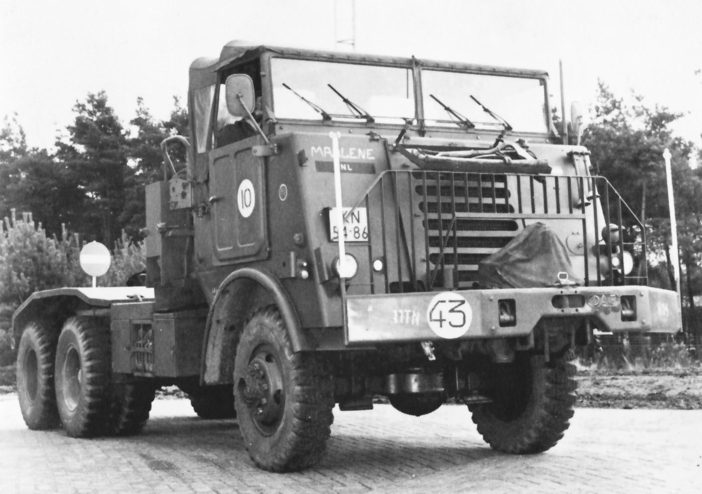 DAF YT 616 Tractor Dutch Army.